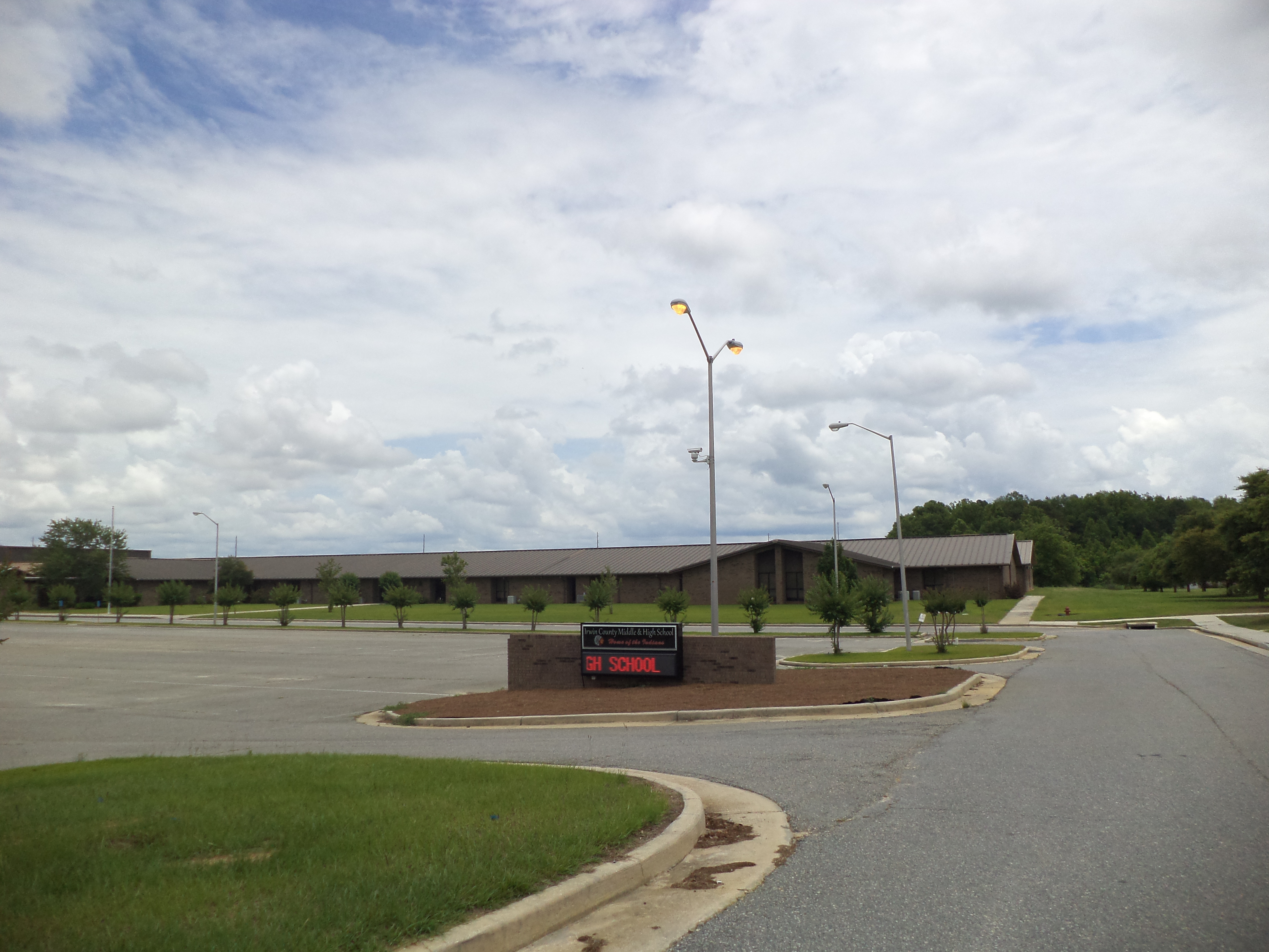 Irwin County Middle High School Sign, 149 Chieftain Circle, Ocilla, Irwin County, Georgia